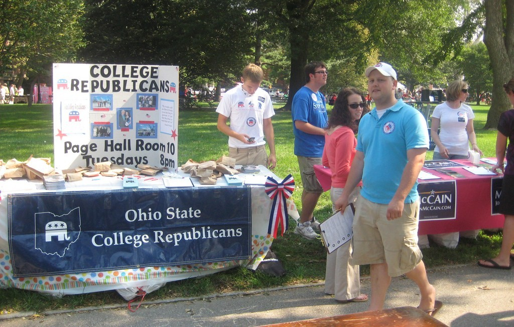 Pictures from College Republican recruiting at OSU's Involvement Fair-- 703 recruits.